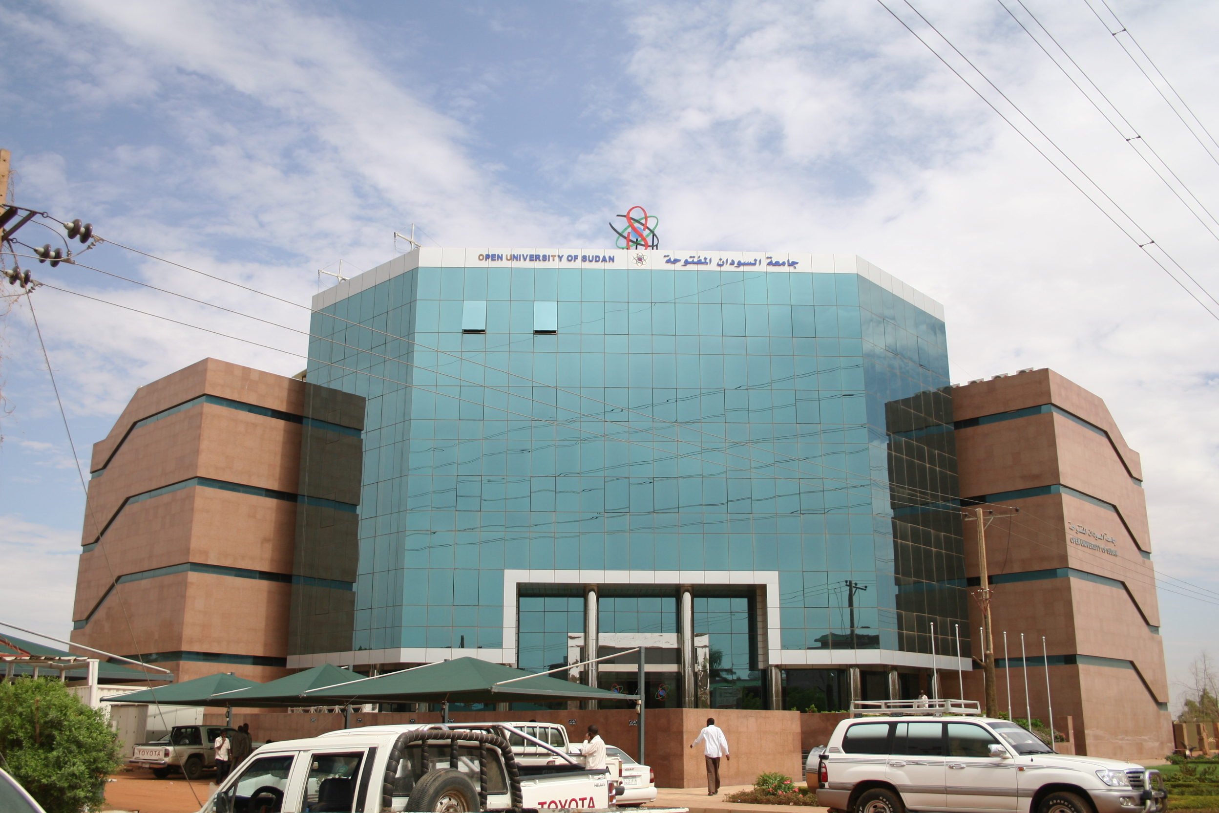 The Open University of Sudan headquarter, Ebaid Khatim Street, Arkaweet, Khartoum Sudan.